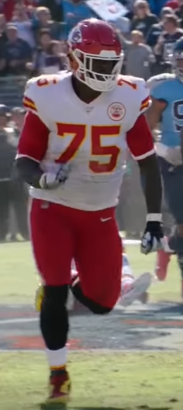 Cameron Erving 2019. Image taken from video Titans Mic'd Up vs. Chiefs (Week 10) | Sounds of the Game ~ 01:57